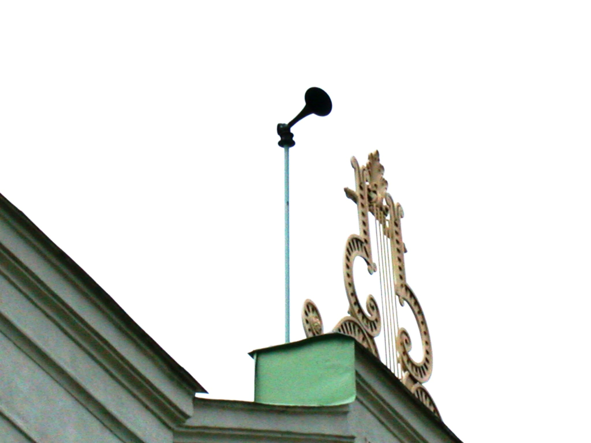 Horn for public warning system, Sweden. This horn is placed on the roof of the town theatre in Kalmar. Photo by Riggwelter, July 08, 2006.